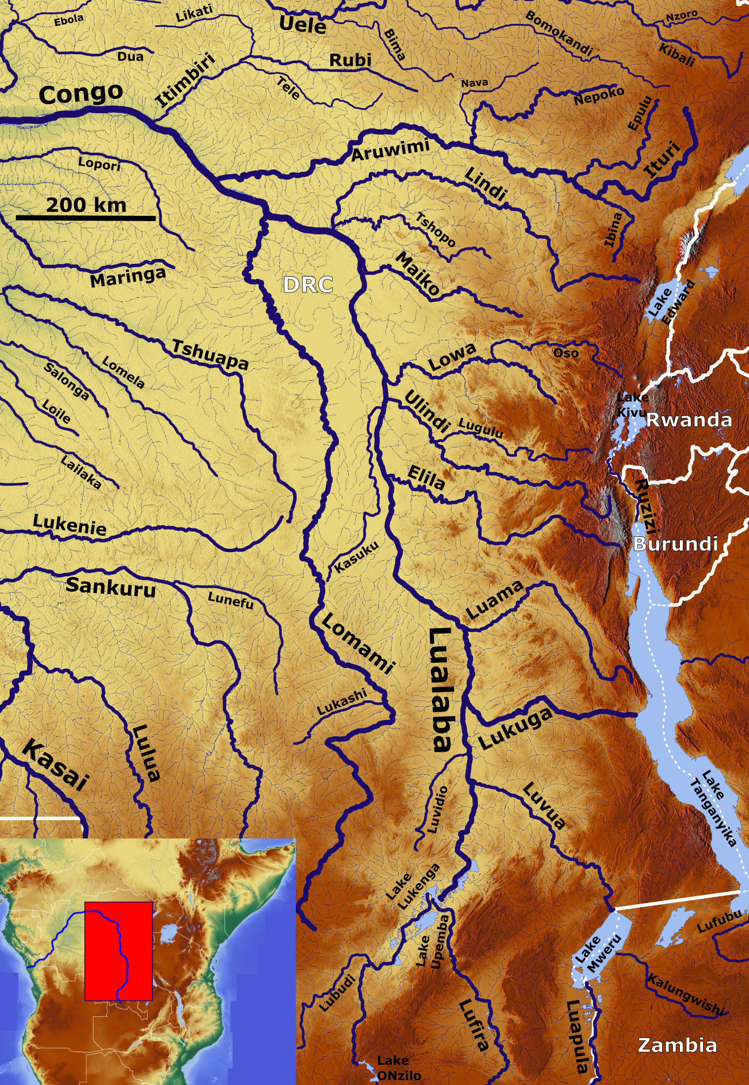 Rivers of the east DRC. Modification of OSM with data from UNEP - Water Issues in the Democratic Republic of the Congo, page 13 and US. Army Maps.